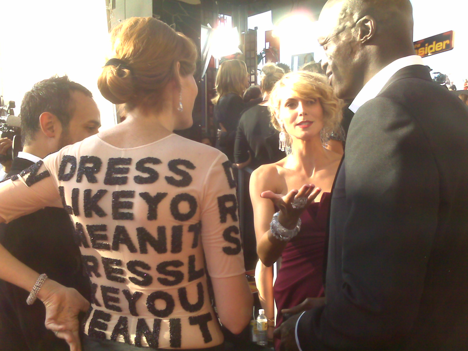 Project Runway contestants Laura Bennett and Nick Verreos interview Project Runway host Heidi Klum and her date Seal at the 59th Annual Emmy Awards.